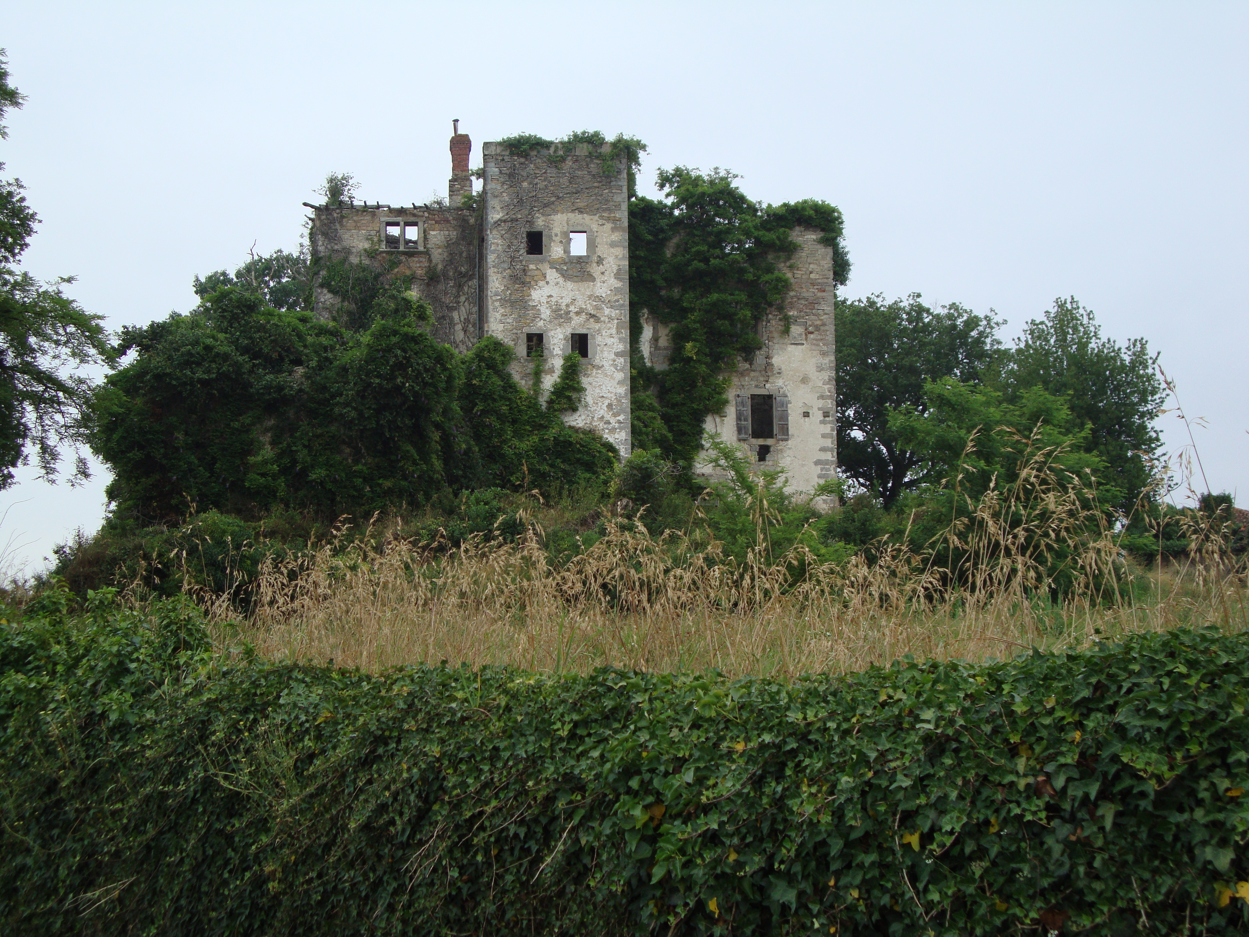 Beyrie-sur-Joyeuse_(Pyr-Atl,_Fr) the castle needing restauration.